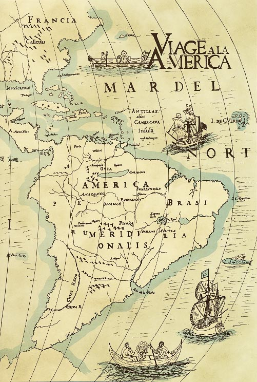 Viage a la America, the diary of the Spanish monk Fray Iñigo Abbad y Lasierra, fascimile of the original manuscript (circa 1773), [1]